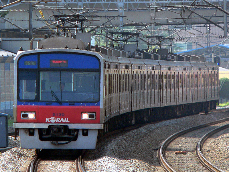 KORAIL 311000 series (formerly 5000 series) EMU (2nd version)